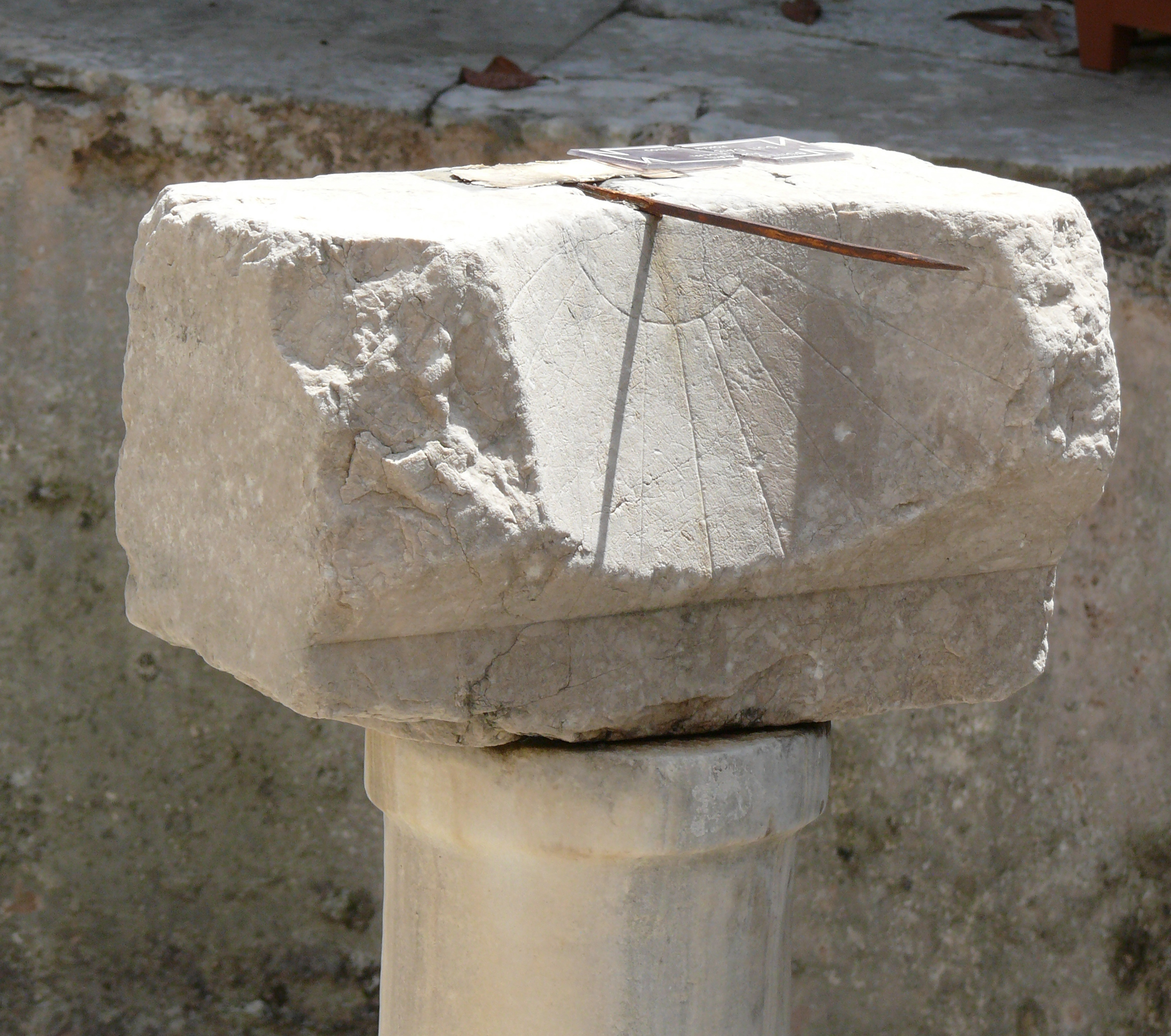 Roman hemispherical sundial in the Side Archaeological Museum (Side, Turkey).